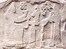 Hittite relief from Firaktin, copy in the Museum of Kayseri: Puduhep and Hebat.